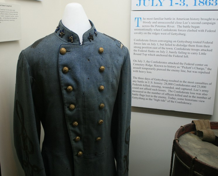 Coat of Maj Gen William Pender